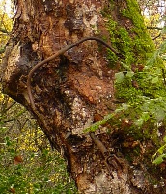 The metal-eating tree, Brig O'Turk